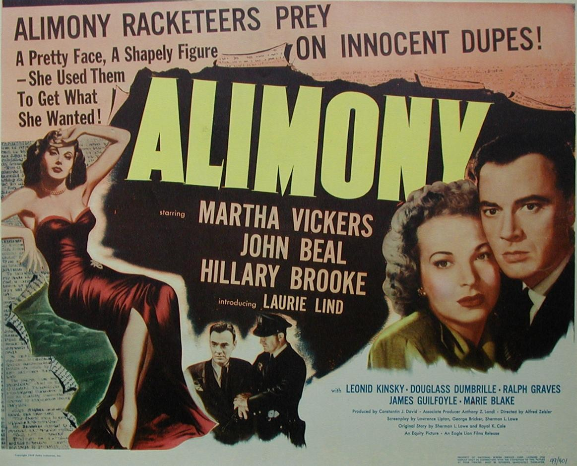 Promotional poster for the film Alimony (1949) (original image cropped : see source)